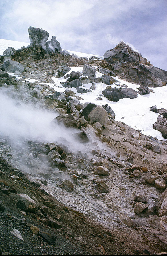 Vents on the summit ridge produced crevasses which became wider downward.